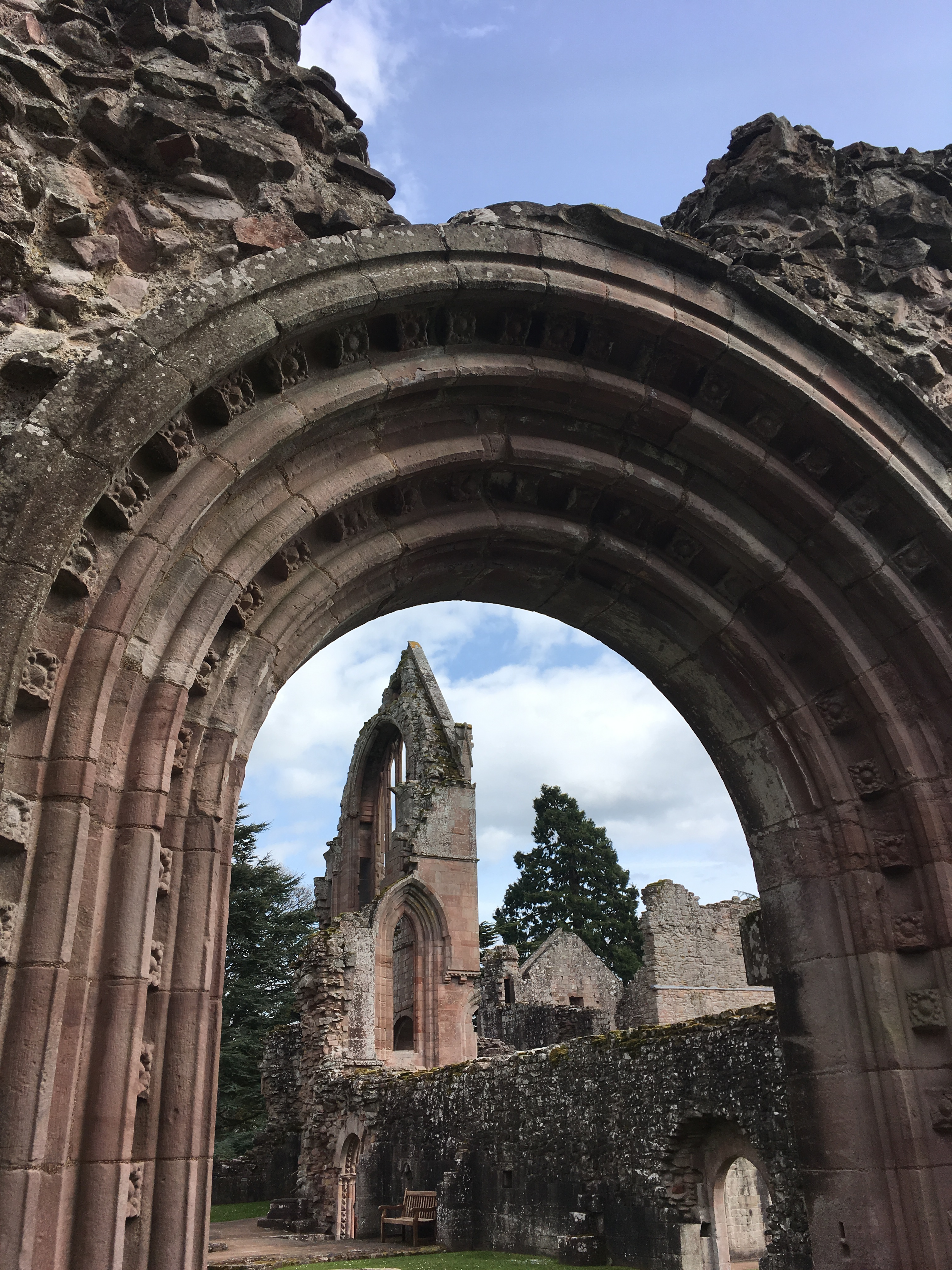 Dryburgh Abbey Wikidata has entry Q1261598 with data related to this item.